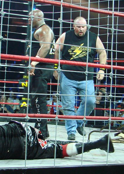 Brother Devon and Mark LoMonaco after winning the NWA World Tag Team Championship at TNA Lockdown.